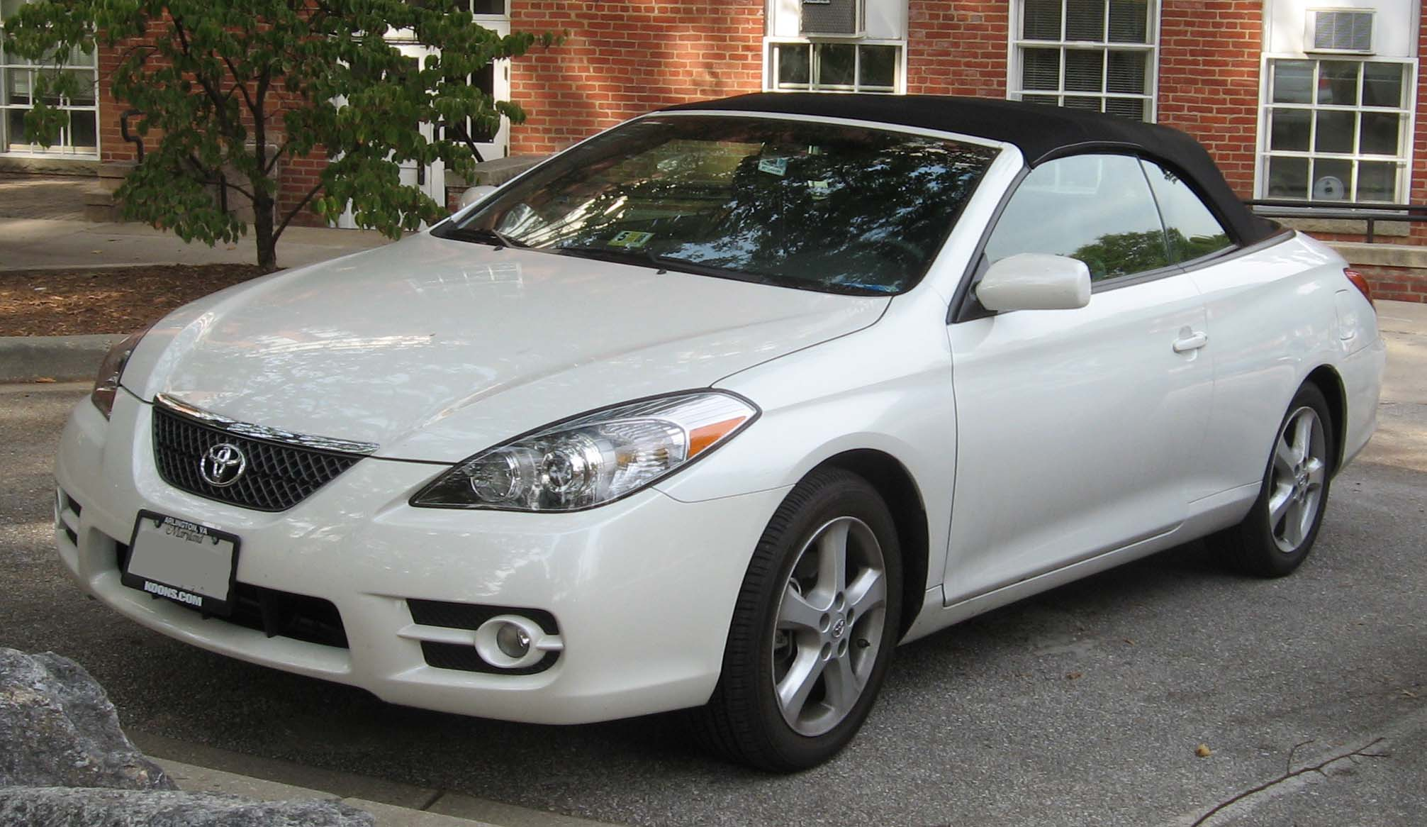 2007-2008 Toyota Solara photographed in College Park, Maryland, USA.